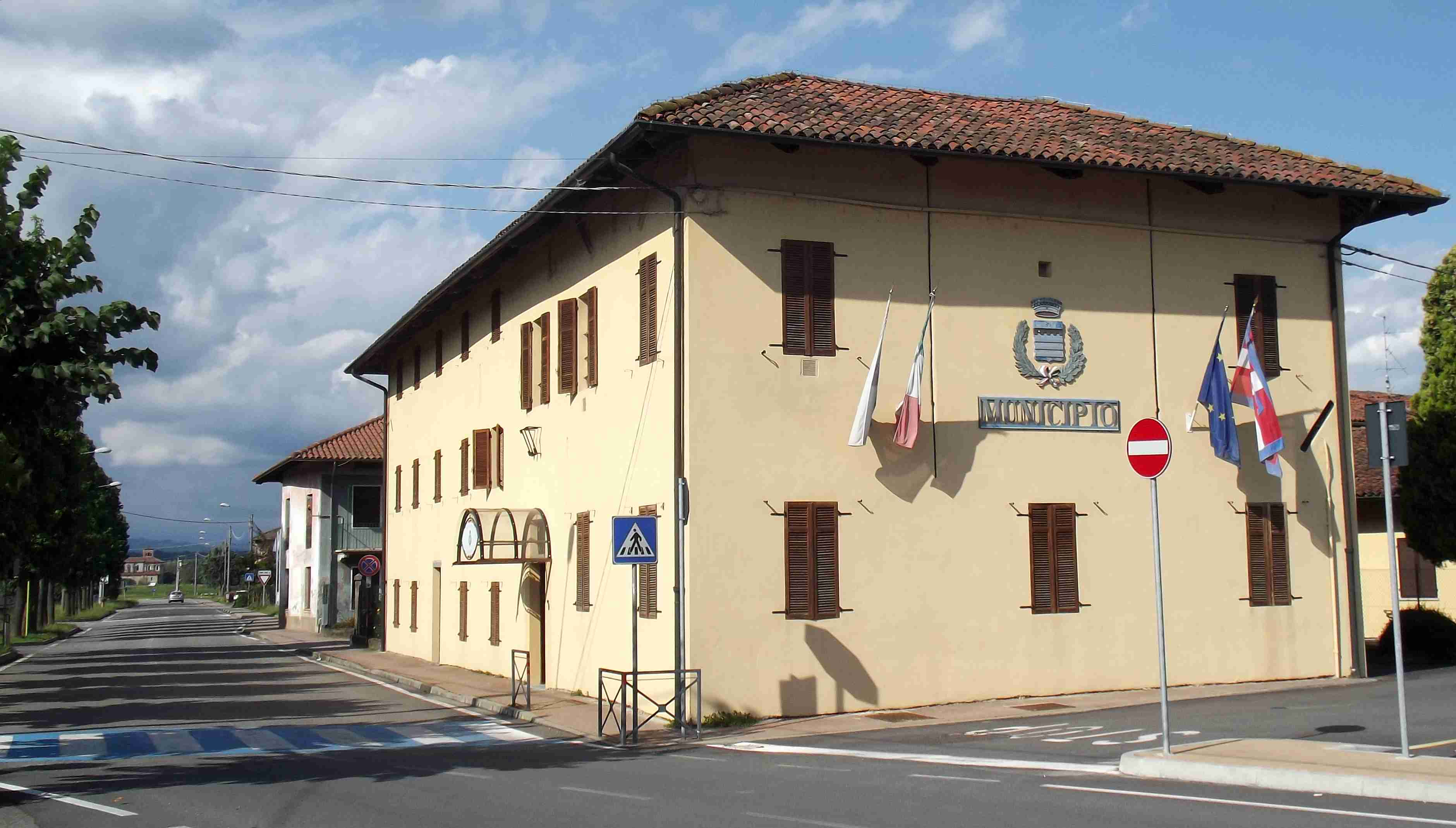 Mottalciata (BI, Italy): town hall